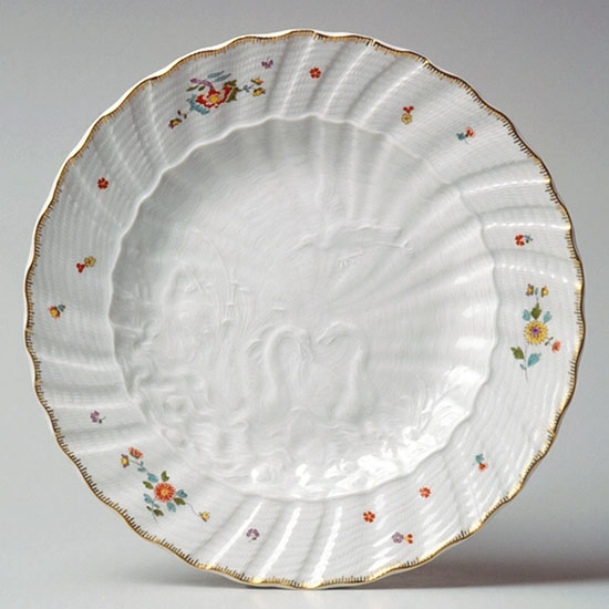 Plate, Schwan service